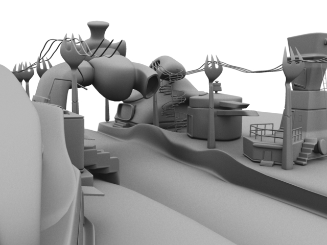 image is of a background of seen using autodesk maya